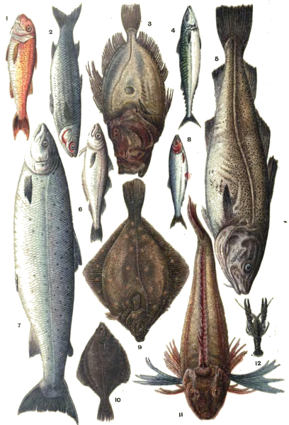 This is the image displayed on page 10 in Mrs. Beeton's Book of Household Management by Isabella Beeton, showing the variety of fishes cooked as food. The figures are: Red Mullet Grayling John Dory Mackerel Cod Whiting Salmon Herring Plaice Flounder Gurnet Crayfish